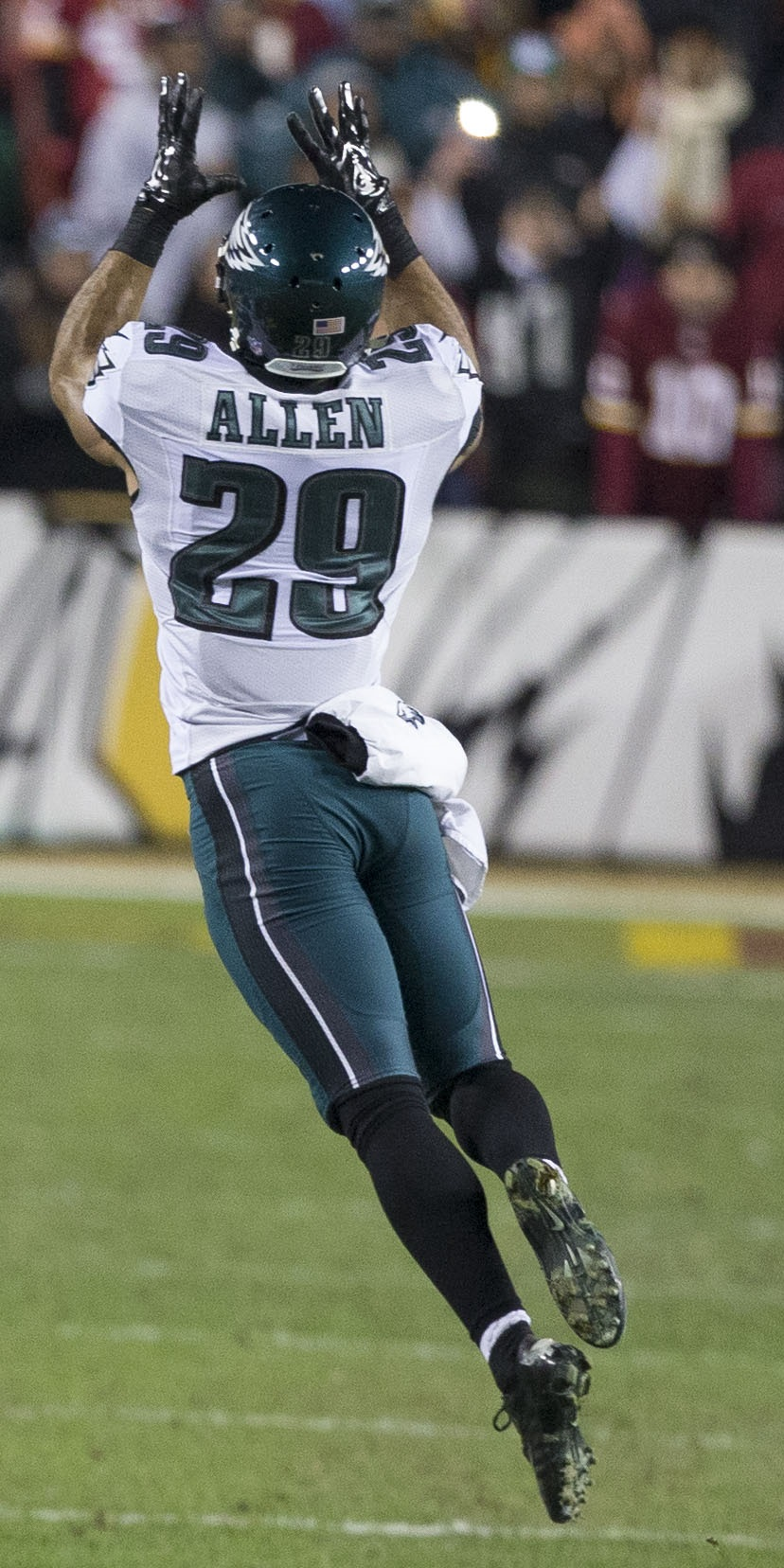 Eagles at Redskins 12/20/14